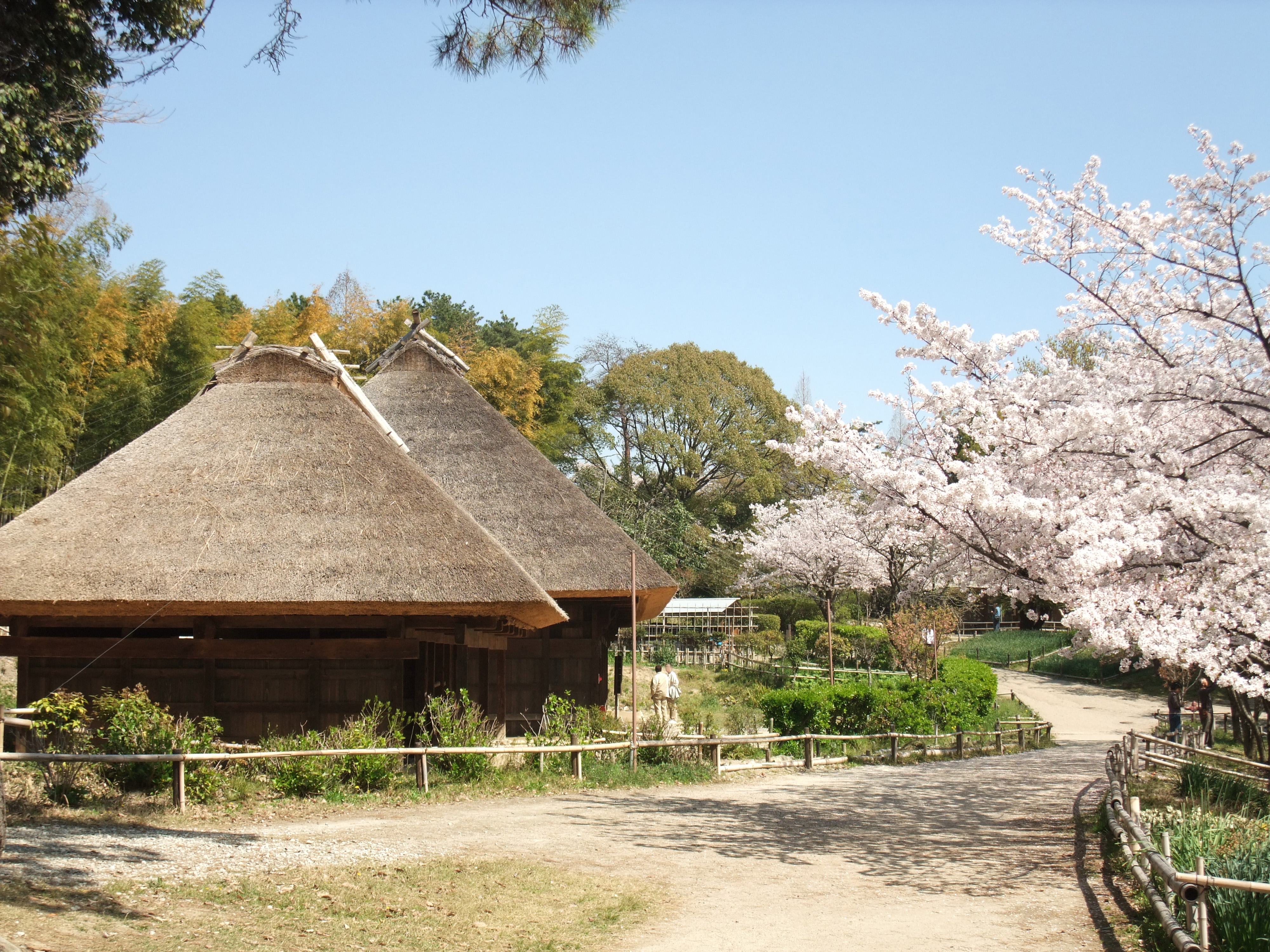 Open-Air Museum of Old Japanese Farm House.Toyonaka City, Osaka Prefecture, Japan